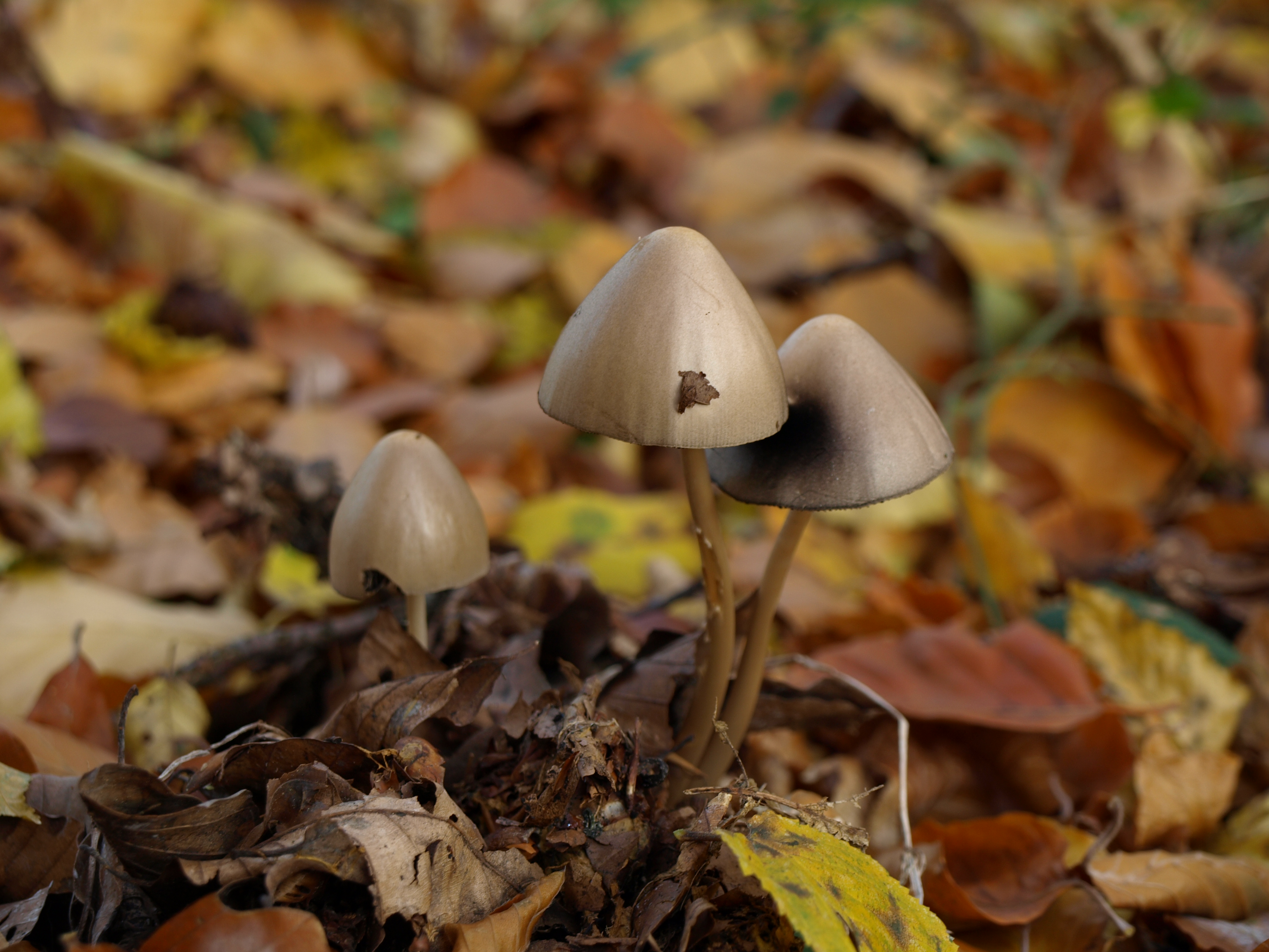 National nature reserve Ve Studeném in Benešov District, Czech Republic